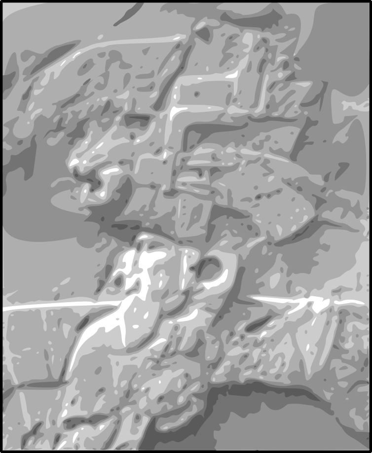 The detail showing the bearded, long-nose man on La Venta Stela 3. Drawing/painting by Madman, based on drawings and photographs.